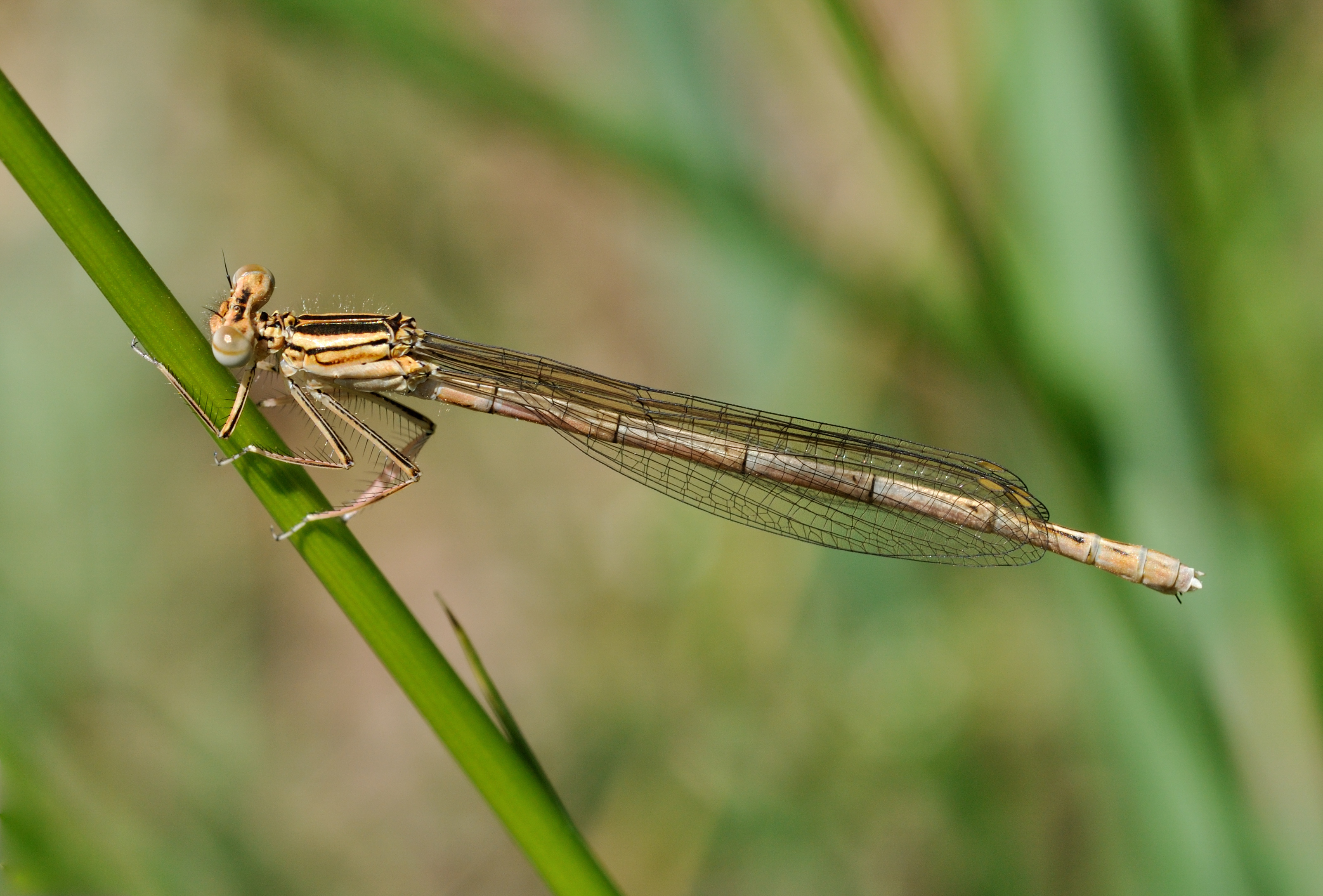 Female White-legged Damselfly (Platycnemis pennipes) near the old airstrip, Frankfurt, Germany.